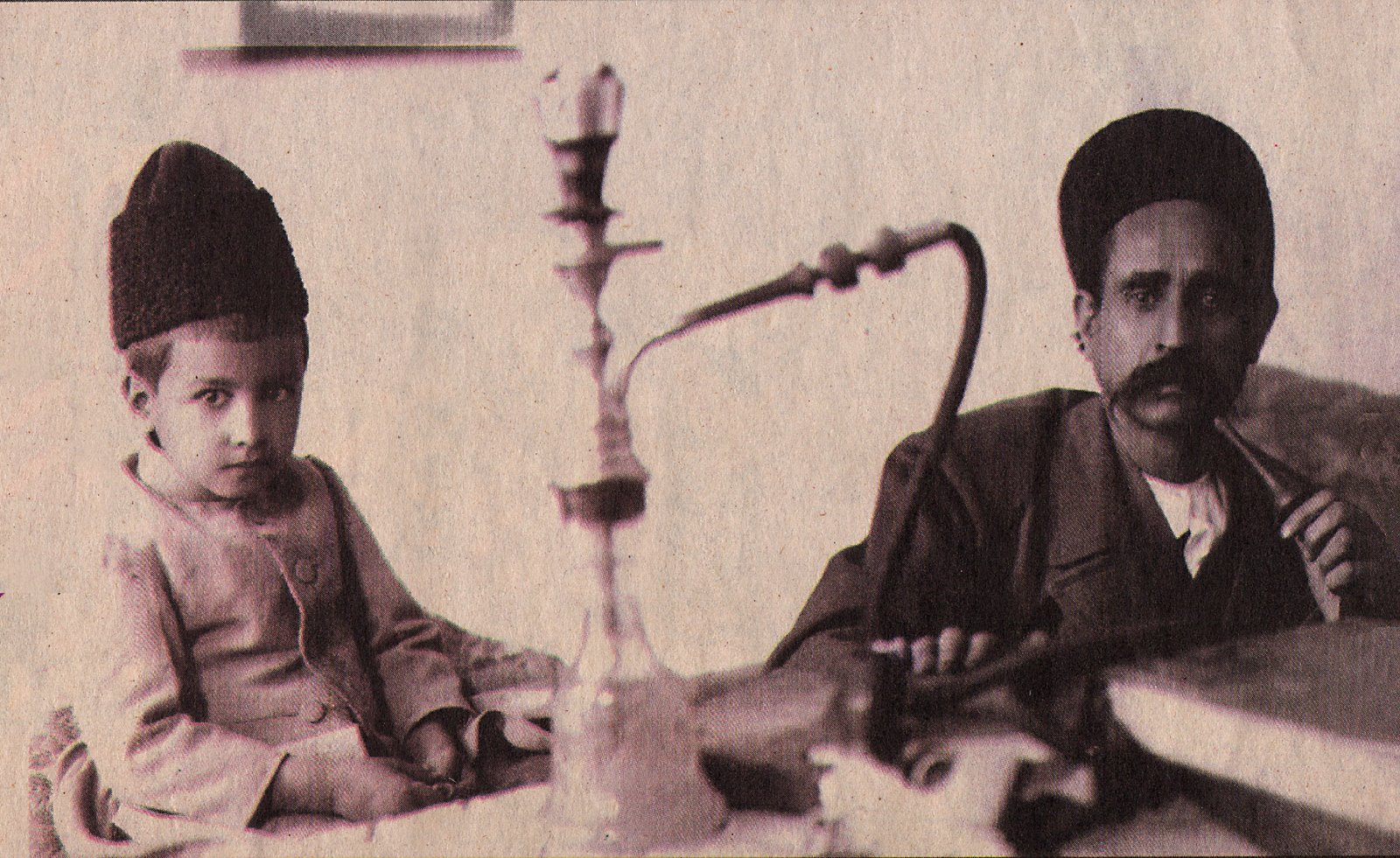 Sattar Khan with his son.